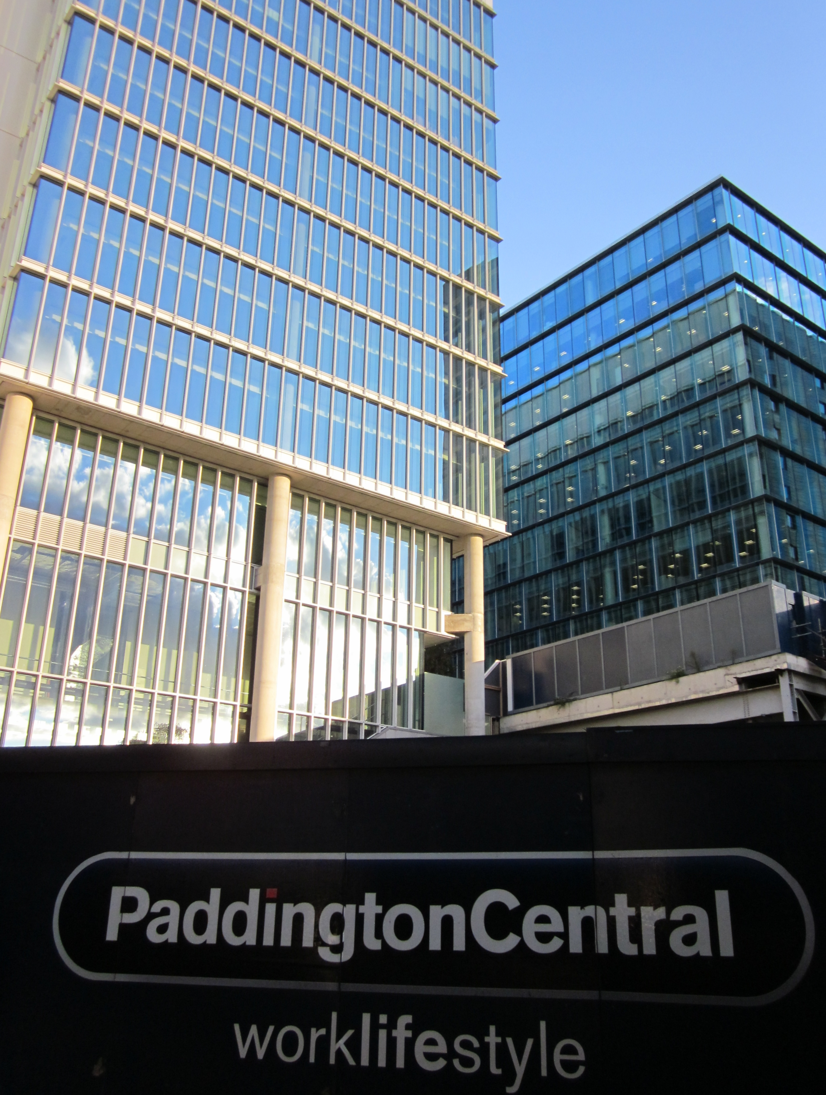 Hoarding in front of Two Kingdom Street, part of the PaddingtonCentral development within the Paddington Waterside regeneration area.